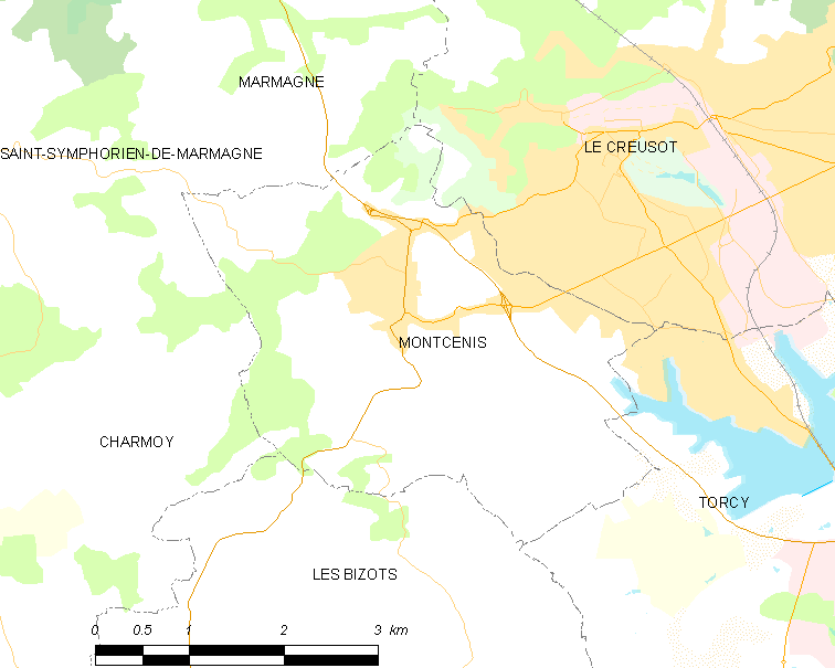 Map of French municipality